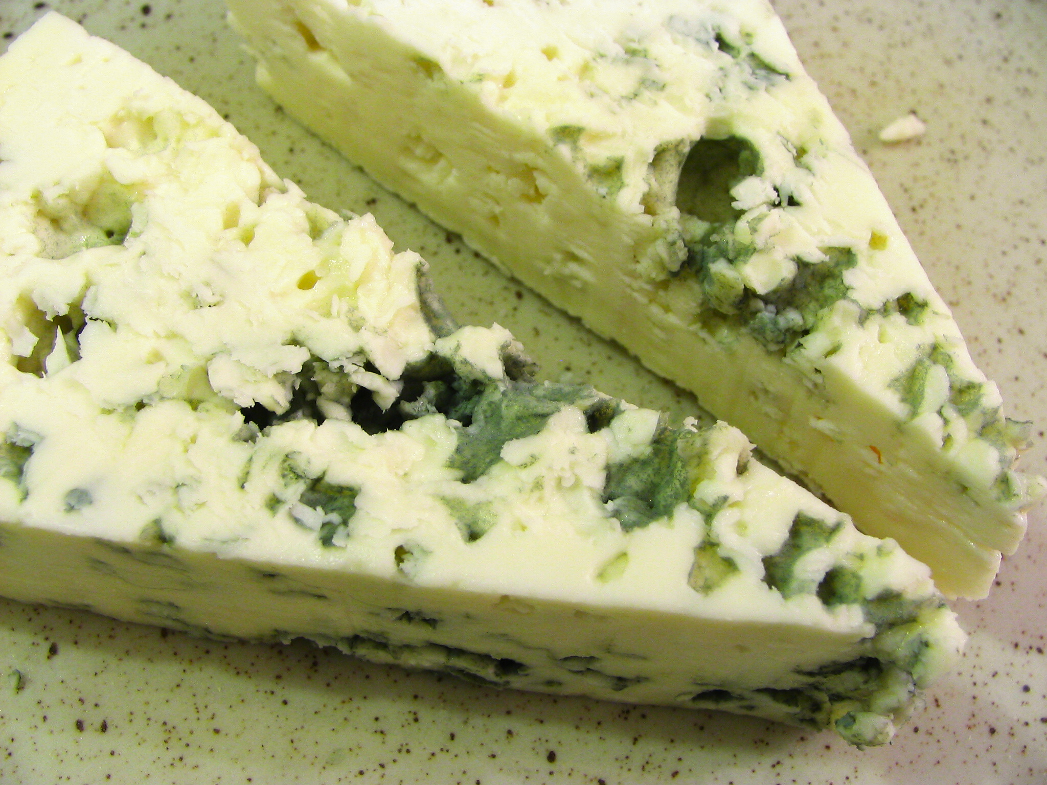 Czech cheese "Niva"